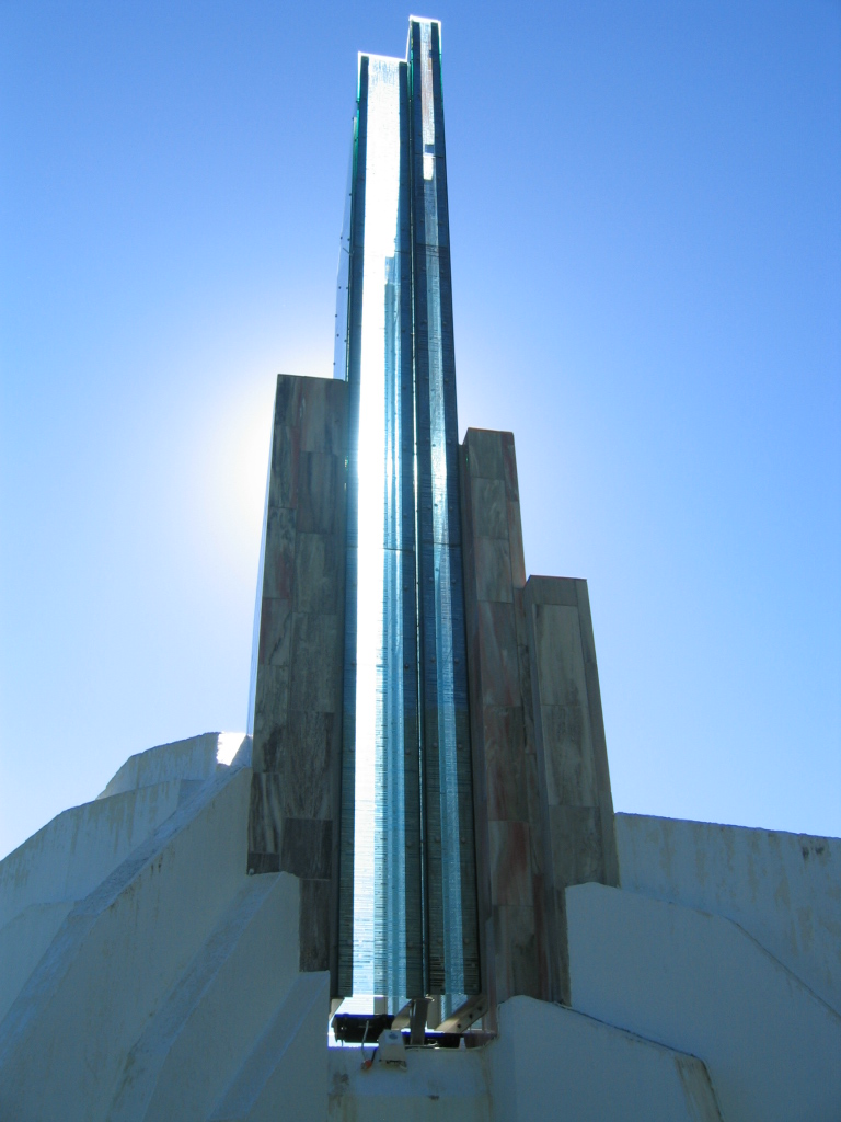 Sculpture by the Riksvei 17 highway in Holandsfjord, Meløy, Norway. Picture taken by myself.